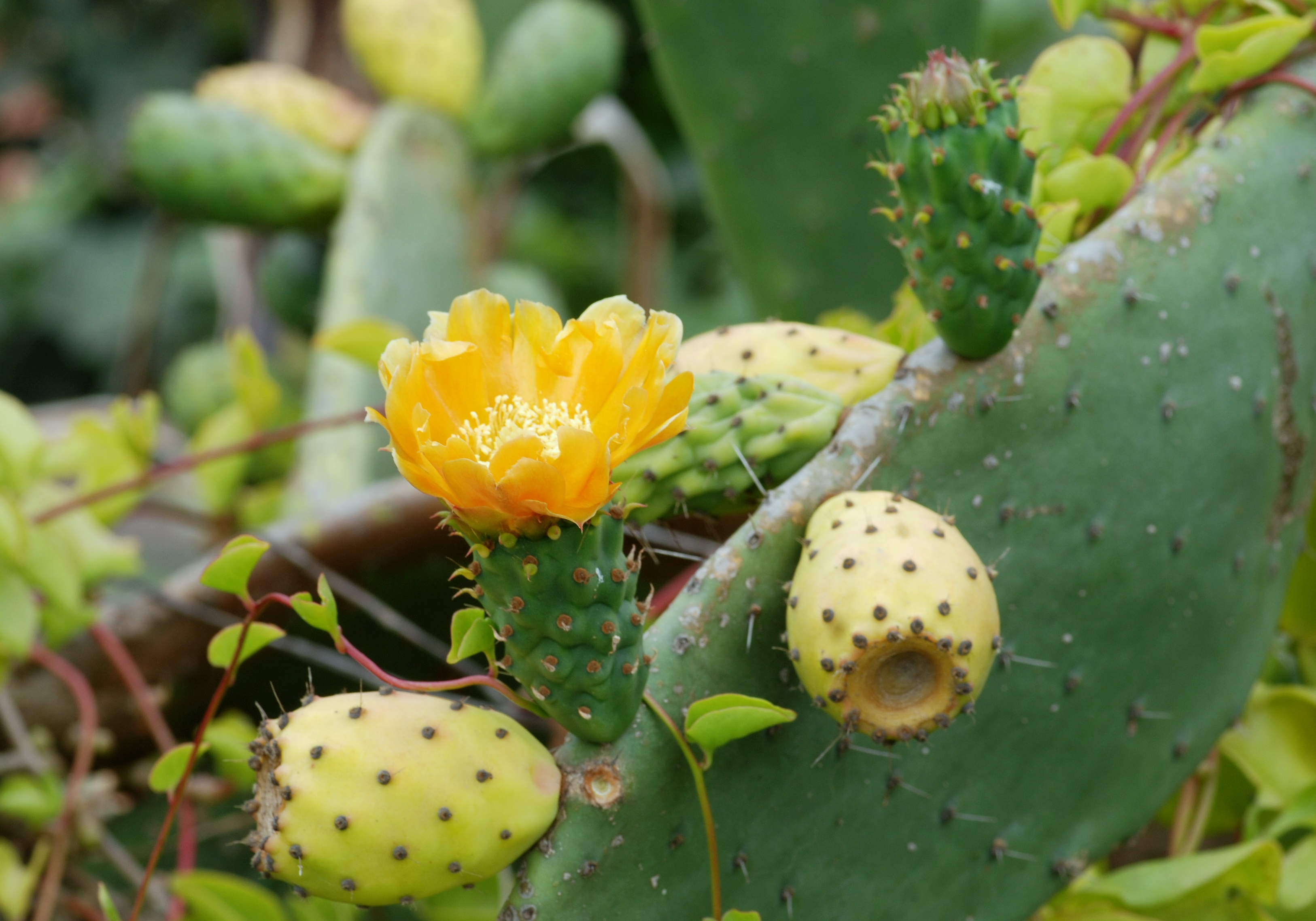 Flower and fruits of an Indian Fig Opuntia (Opuntia fucus-indica)